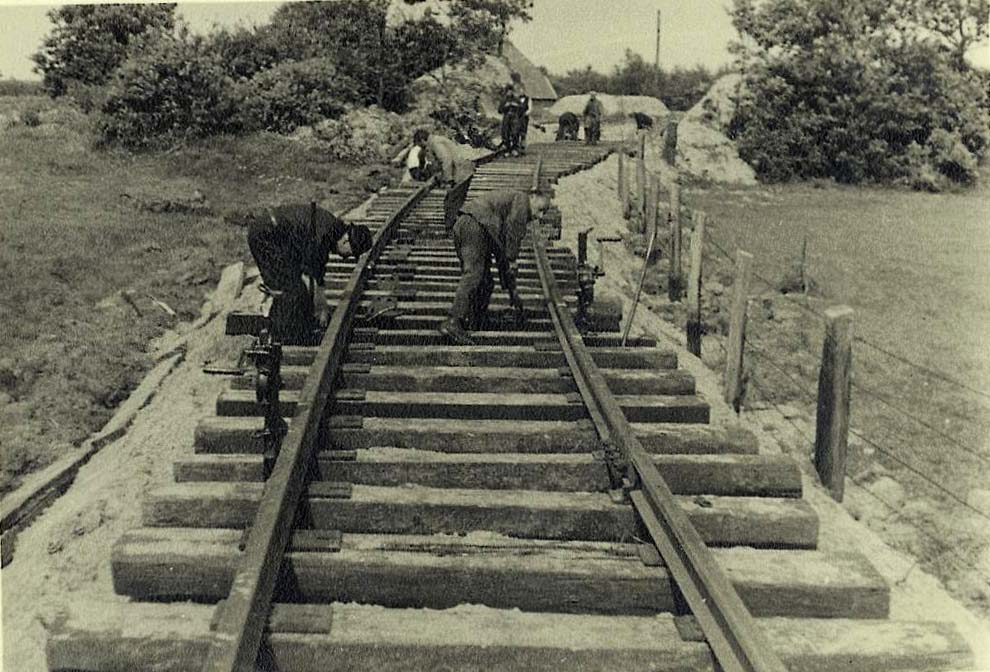 Westerbork, Holland, Construction of railway tracks leading to the camp.